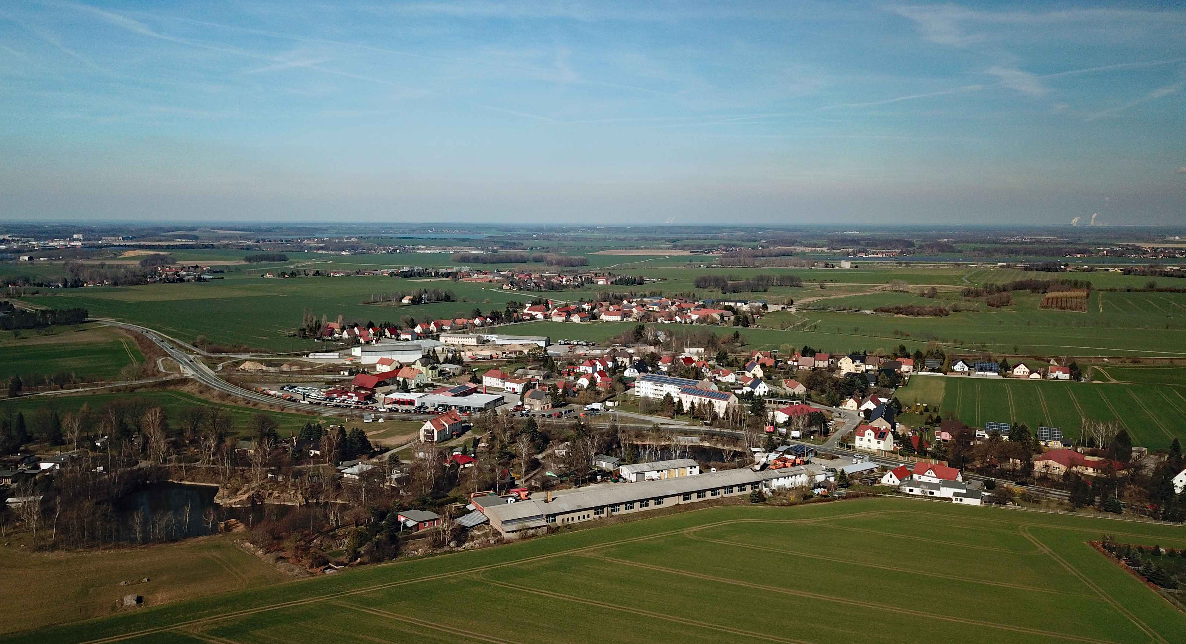 Kubschütz (Saxony, Germany) Hornjoserbsce: Powětrowy wobraz Kubšic Dieses Foto wurde mit einem Quadcopter innerhalb der RMZ des Flugplatzes EDAB aufgenommen. Der Flugleiter wurde am Aufnahmetag telephonisch über Ort und Zeit informiert und hat zugestimmt. Der Flug erfolgte auf Grundlage der Allgemeinverfügung der Landesdirektion Sachsen zur Erteilung der Betriebserlaubnis für unbemannte Luftfahrtsysteme und Flugmodelle gemäß § 21a LuftVO und Zulassung von Ausnahmen von Betriebsverboten gemäß § 21b LuftVO für den Freistaat Sachsen.